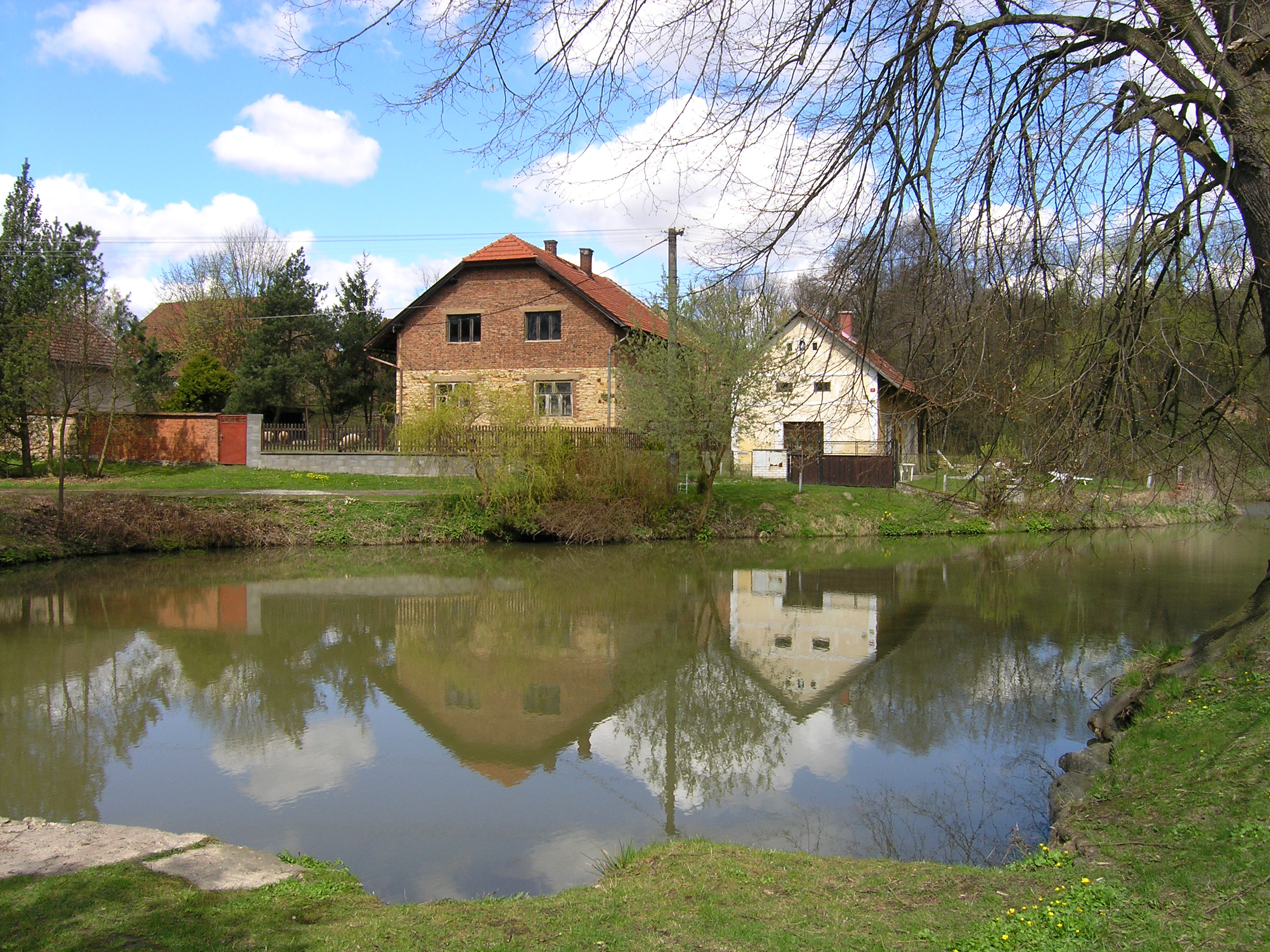 Common pond in Dolní Kruty, part of Horní Kruty village, Czech Republic